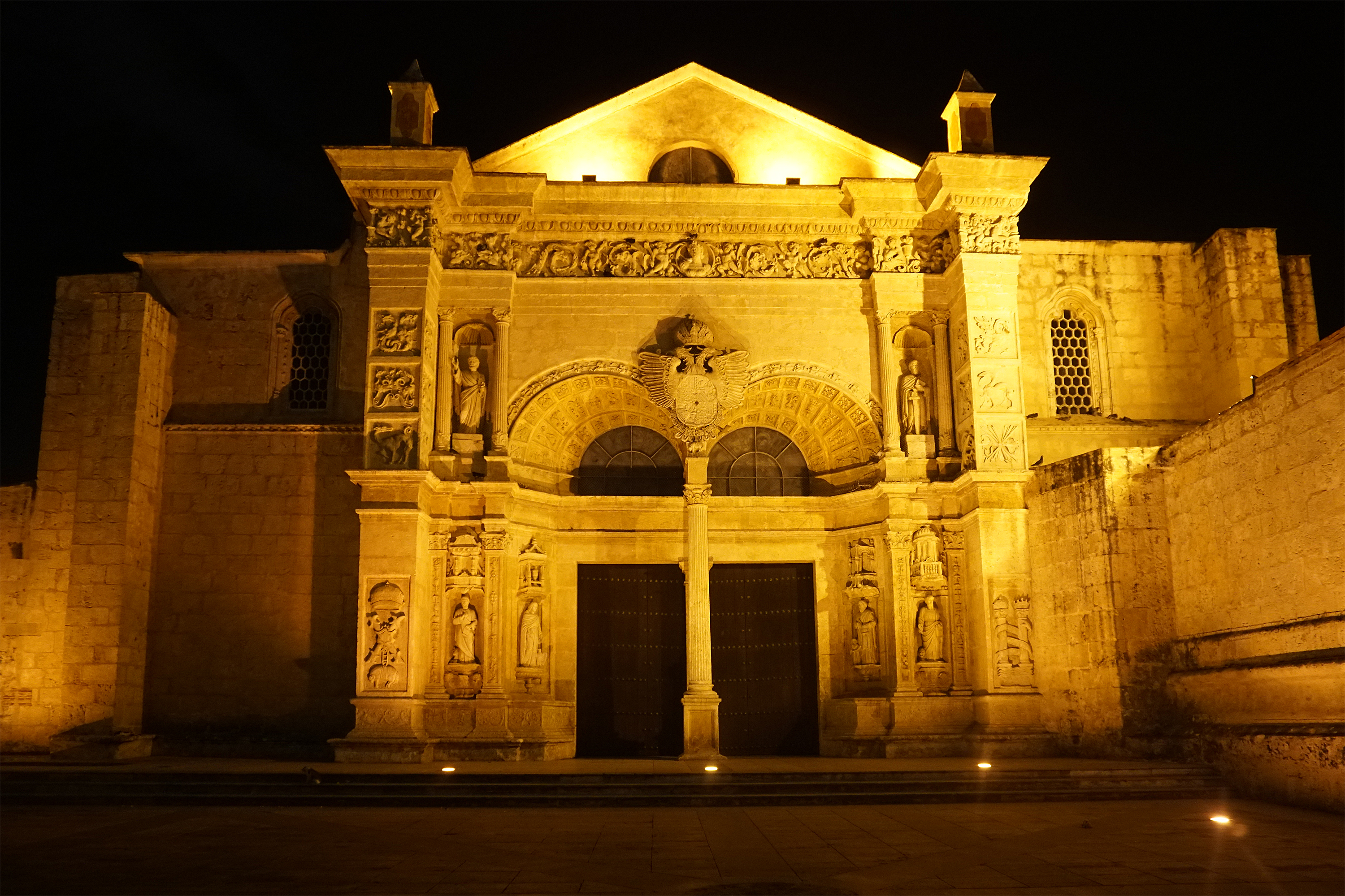 Catedral Primada de America at night. Colonial City Santo Domingo, Dominican Republic.